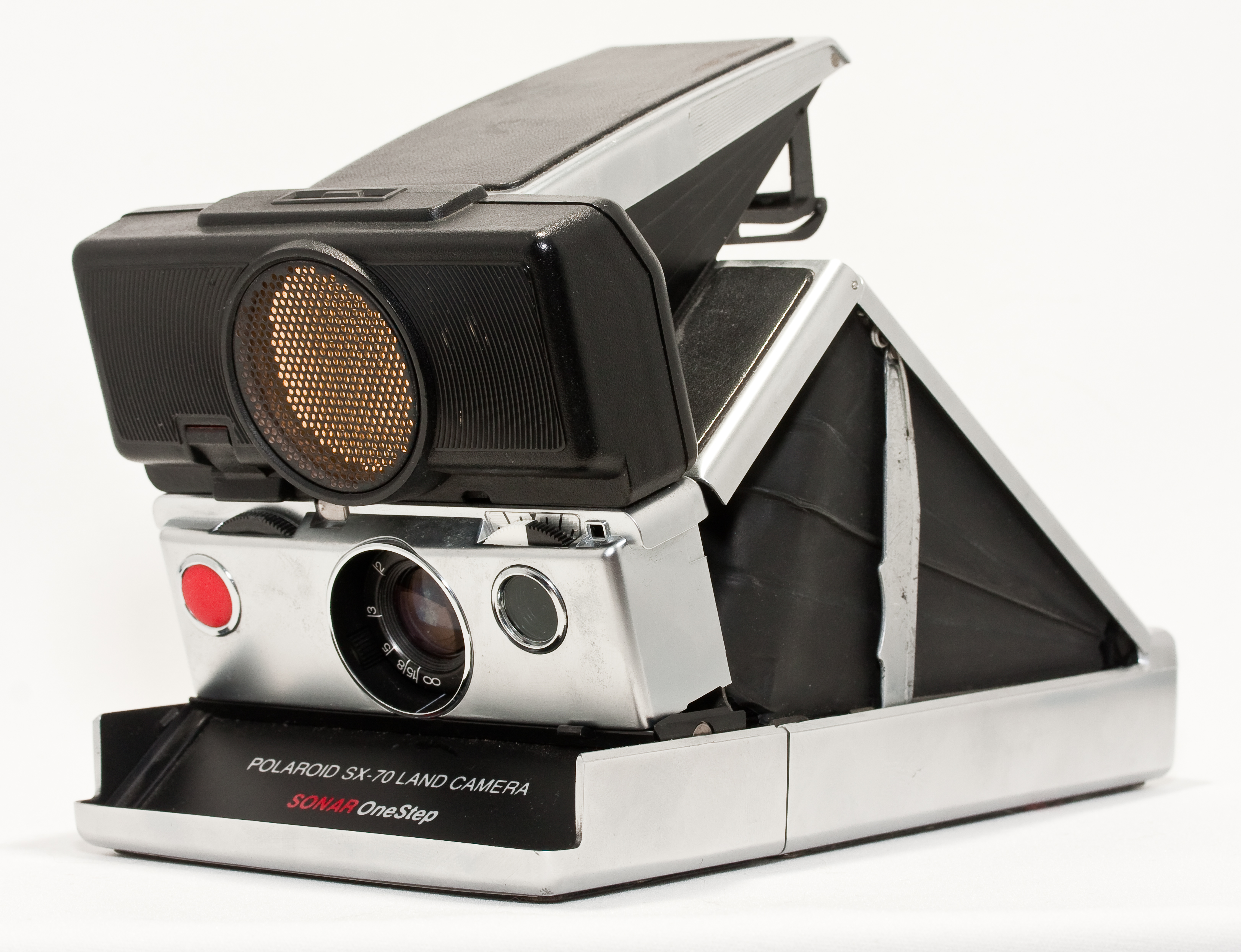 Polaroid SX-70 Sonar One Step